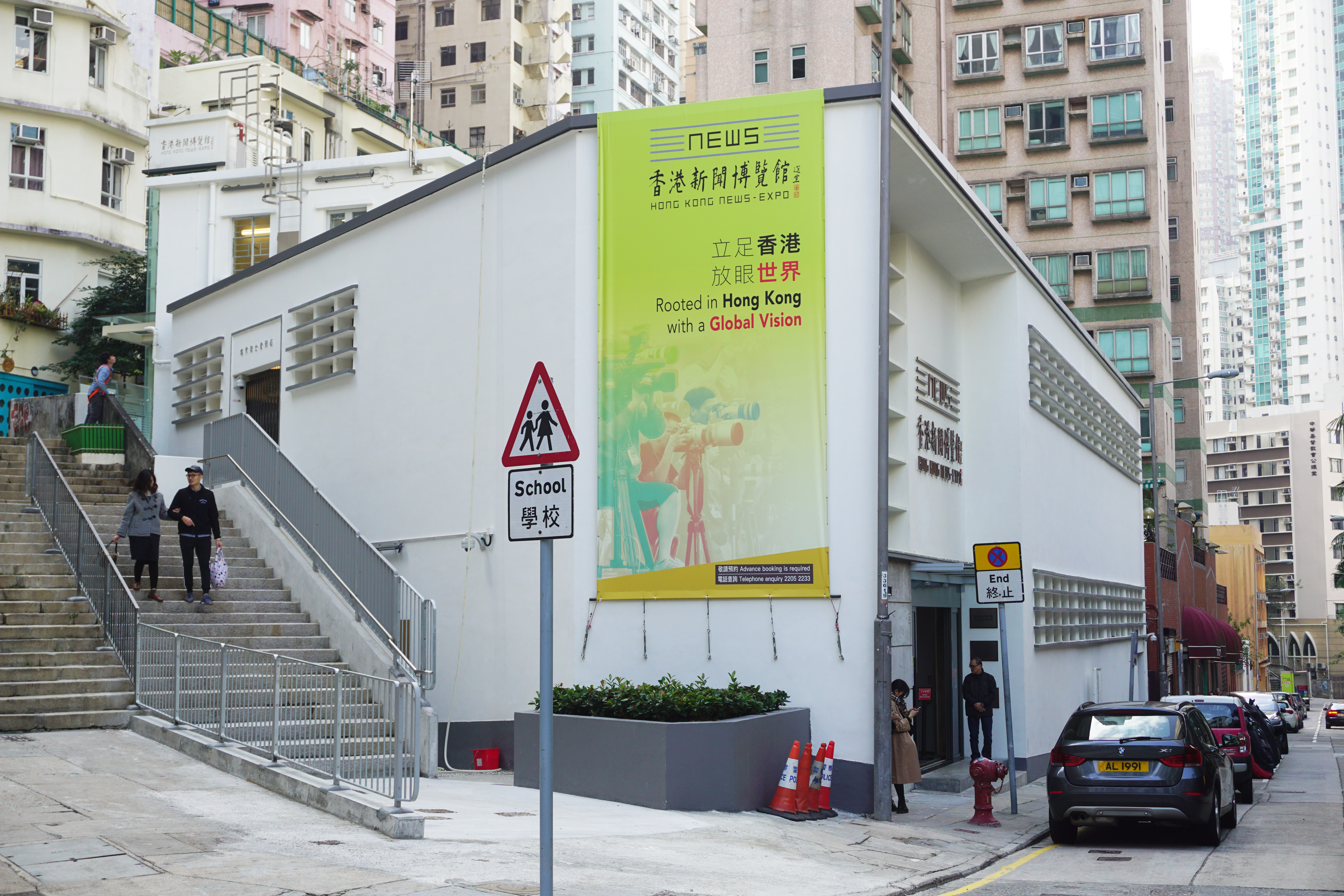 Hong Kong News-Expo in Central, Hong Kong.